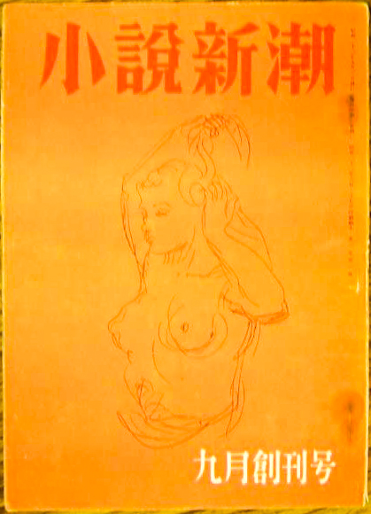 Cover of the first issue of Shōsetsu Shinchō